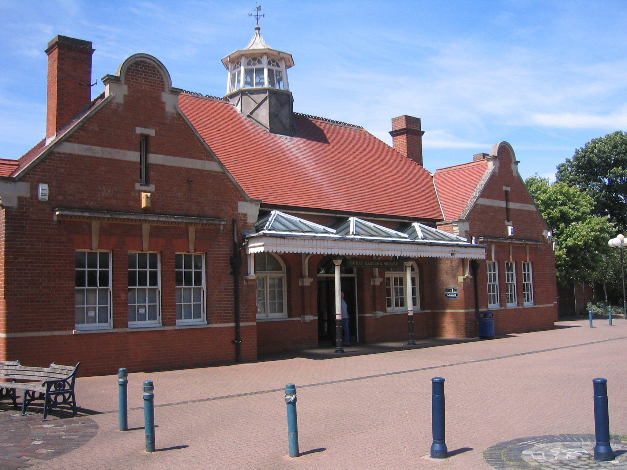 The original entrance to Felixstowe (formerley Felixstowe Town) railway station in Suffolk, England.